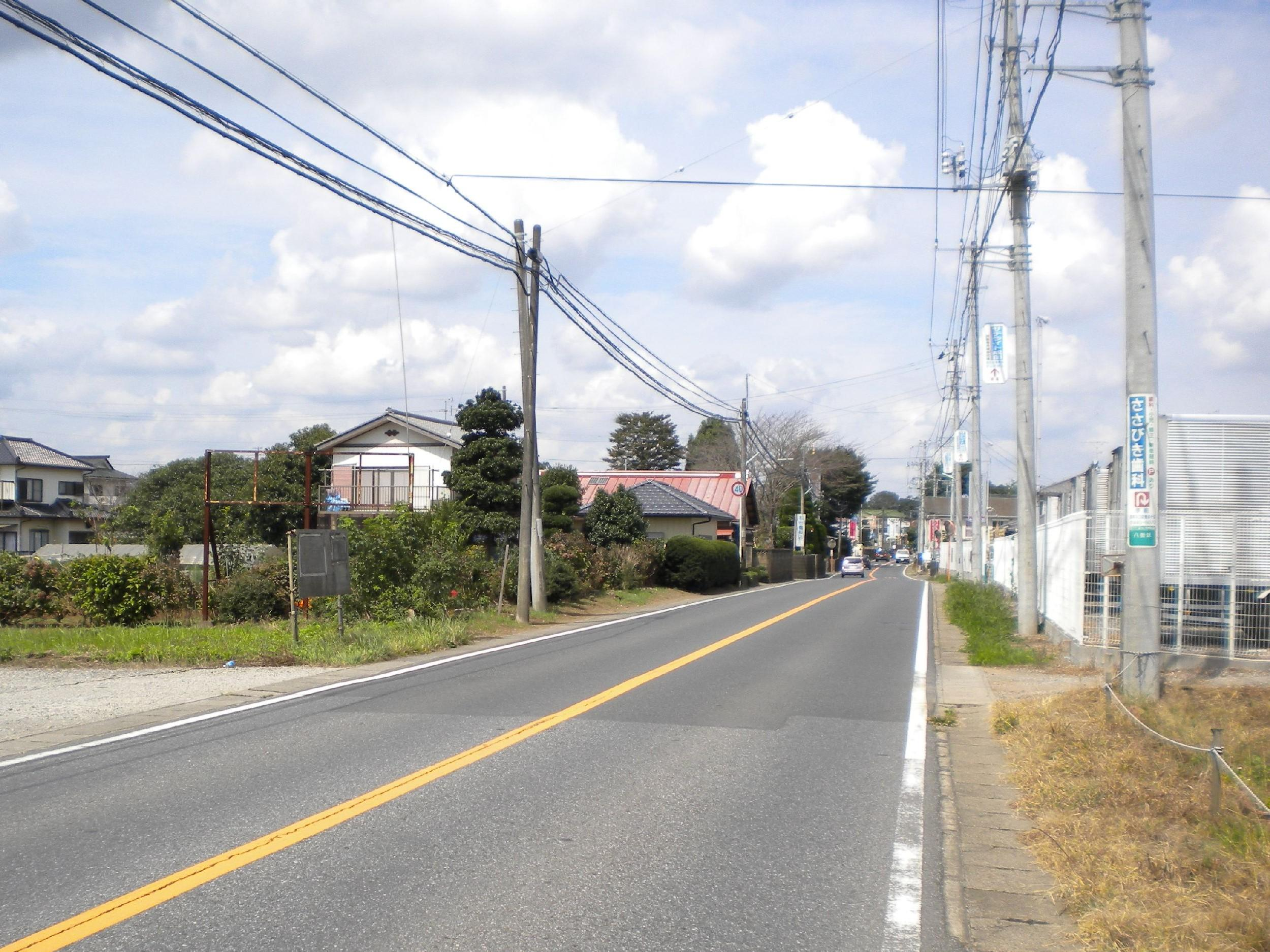 Japan_national_road_No.409_on_Yachimata_city